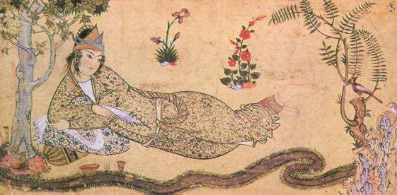 THE QUEEN OF SHEBA (BILQIS) FACING THE HOOPOE, SOLOMON'S MESSENGER/ False signature of Bihzad Iran, Safavid, Qazvin Tinted drawing on paper